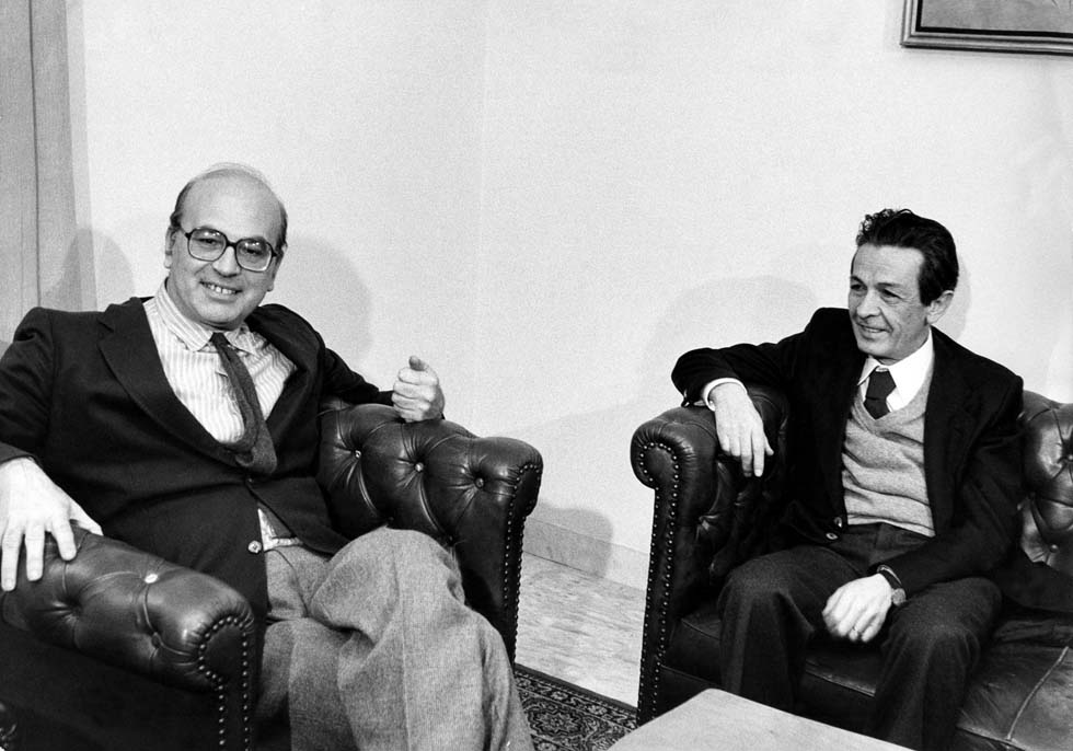 Bettino Craxi and Enrico Berlinguer.